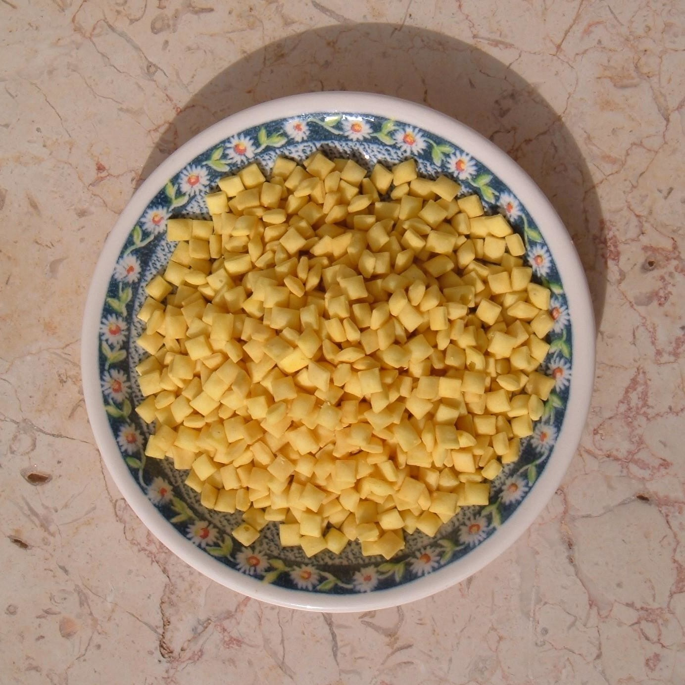 Shkedey Marak (Soup Almonds) - mini crisp croutons which are added to soup in Israel.שקדי מרק